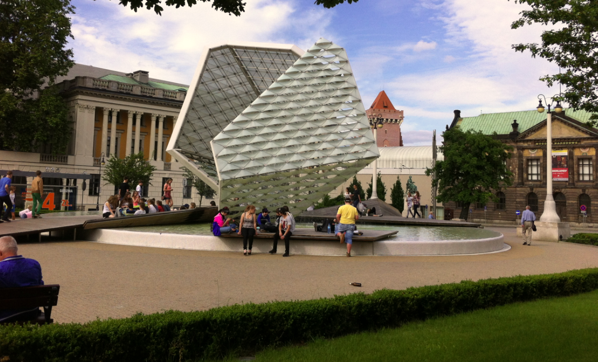 Fountain on Plac Wolności in Poznań (West side view)